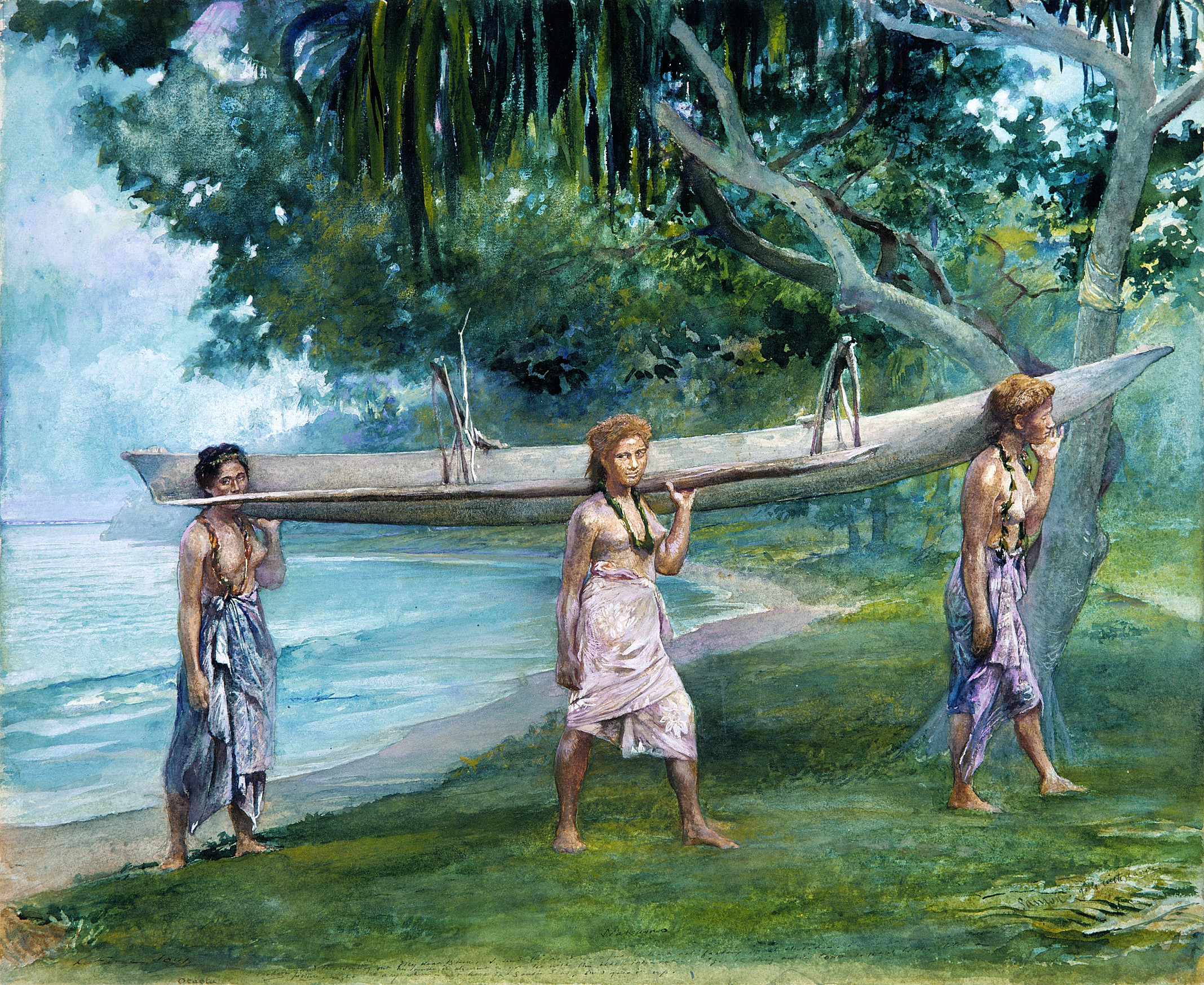 Watercolor; Drawings